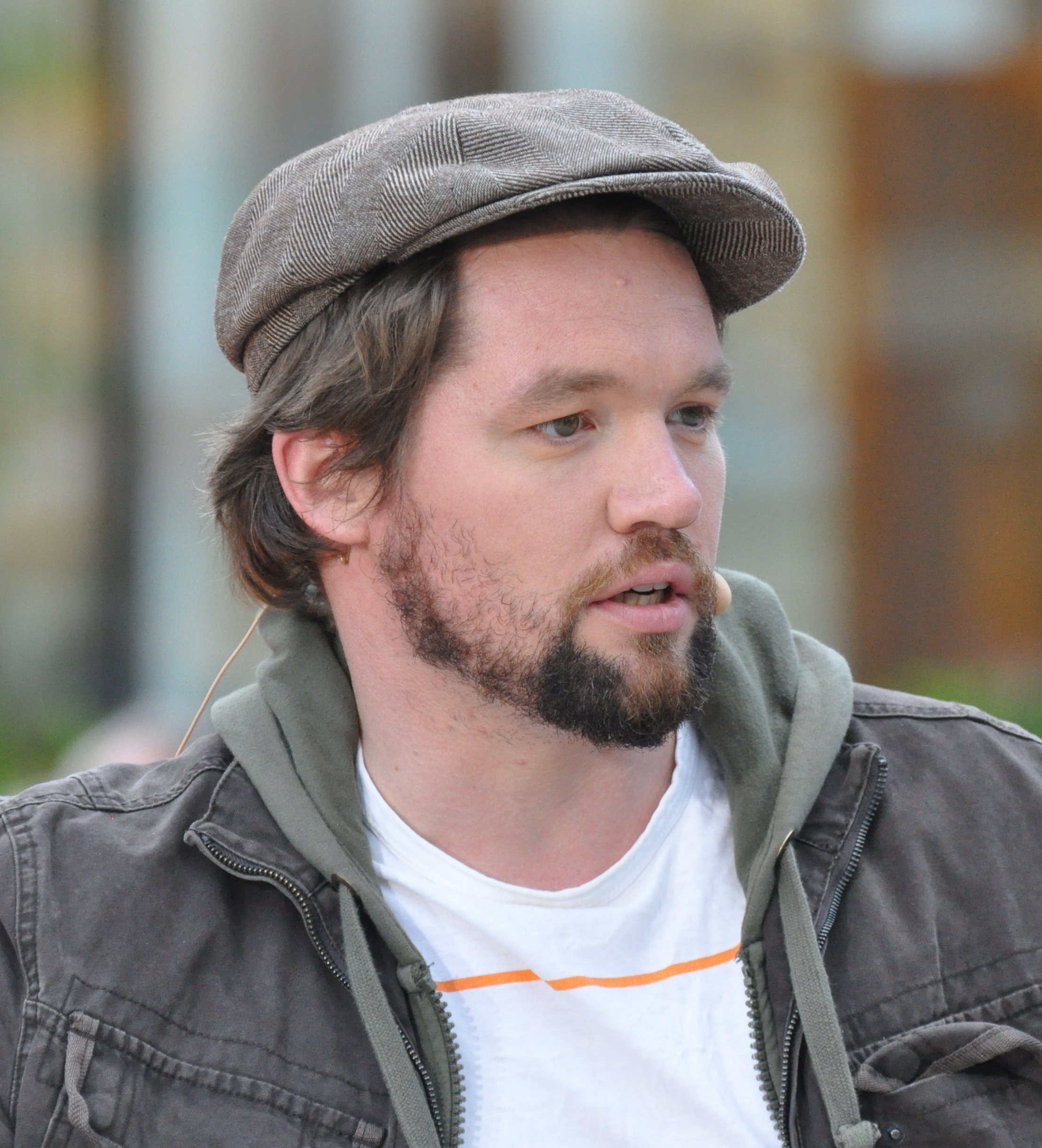 Finnish actor Juha-Pekka Mikkola during the taping of Runoraati at the Turku Main Library, 2011.